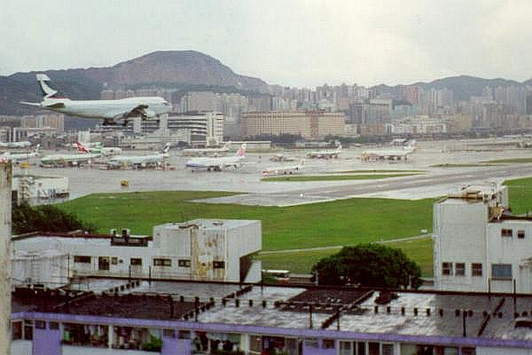 Kai Tak Airport. Photo taken by myself (User:Sl) on 2 July 1998. The buildings in the background are in Kowloon Bay and Kwun Tong.